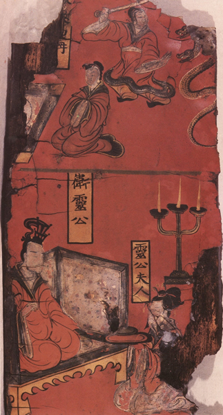 Duke Ling of Wey and his princess consort, from a lacquer painting over wood.